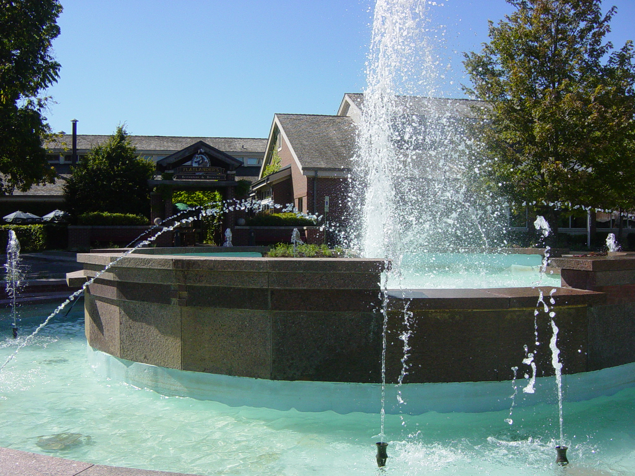 A photo of the fountain in the plaza at the Village Green, Lincolnshire, Illinois.